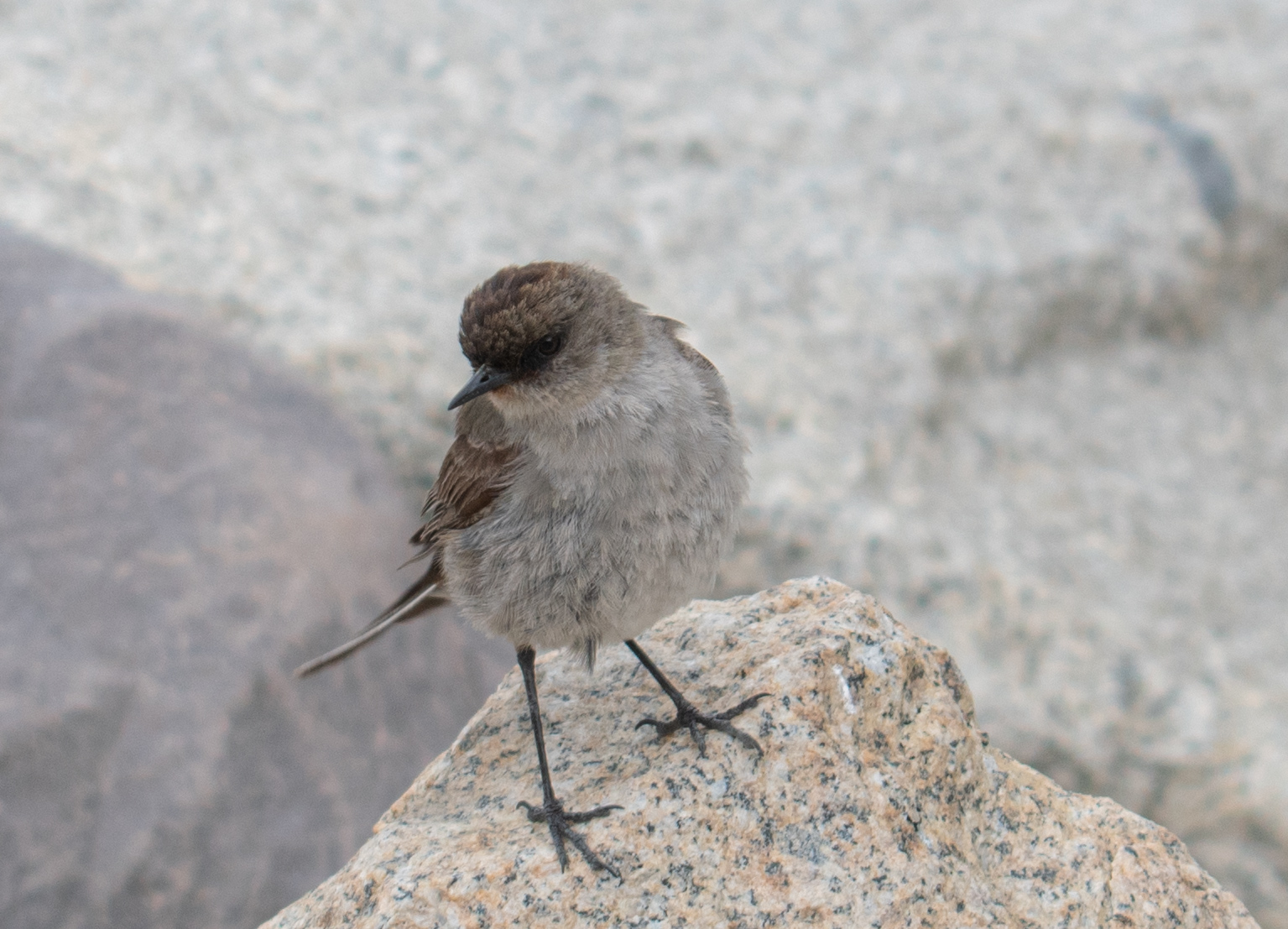 Dark-faced ground tyrant in Torres del Paine National Park